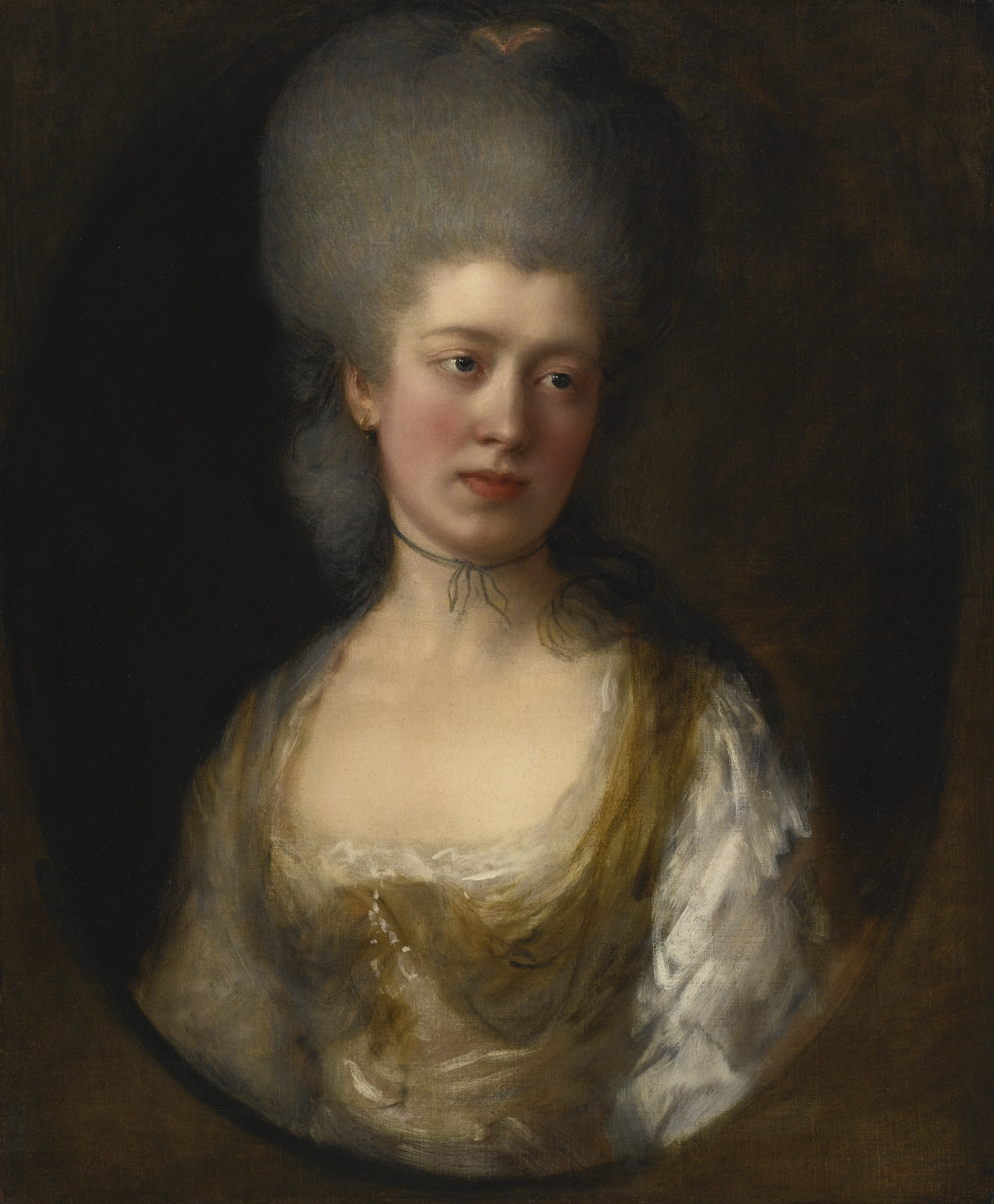 Portrait of Lady Catherine Ponsonby, Duchess of St. Albans (1742-89)